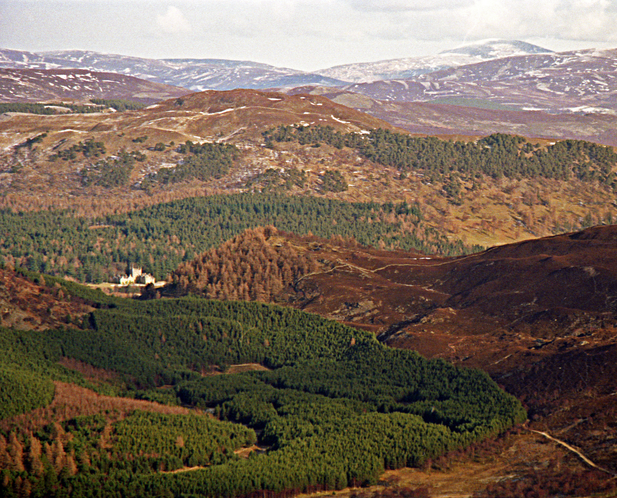 A view to Balmoral Castle A telephoto shot from the summit of Morrone, showing the rugged country which attracted Queen Victoria to the region.